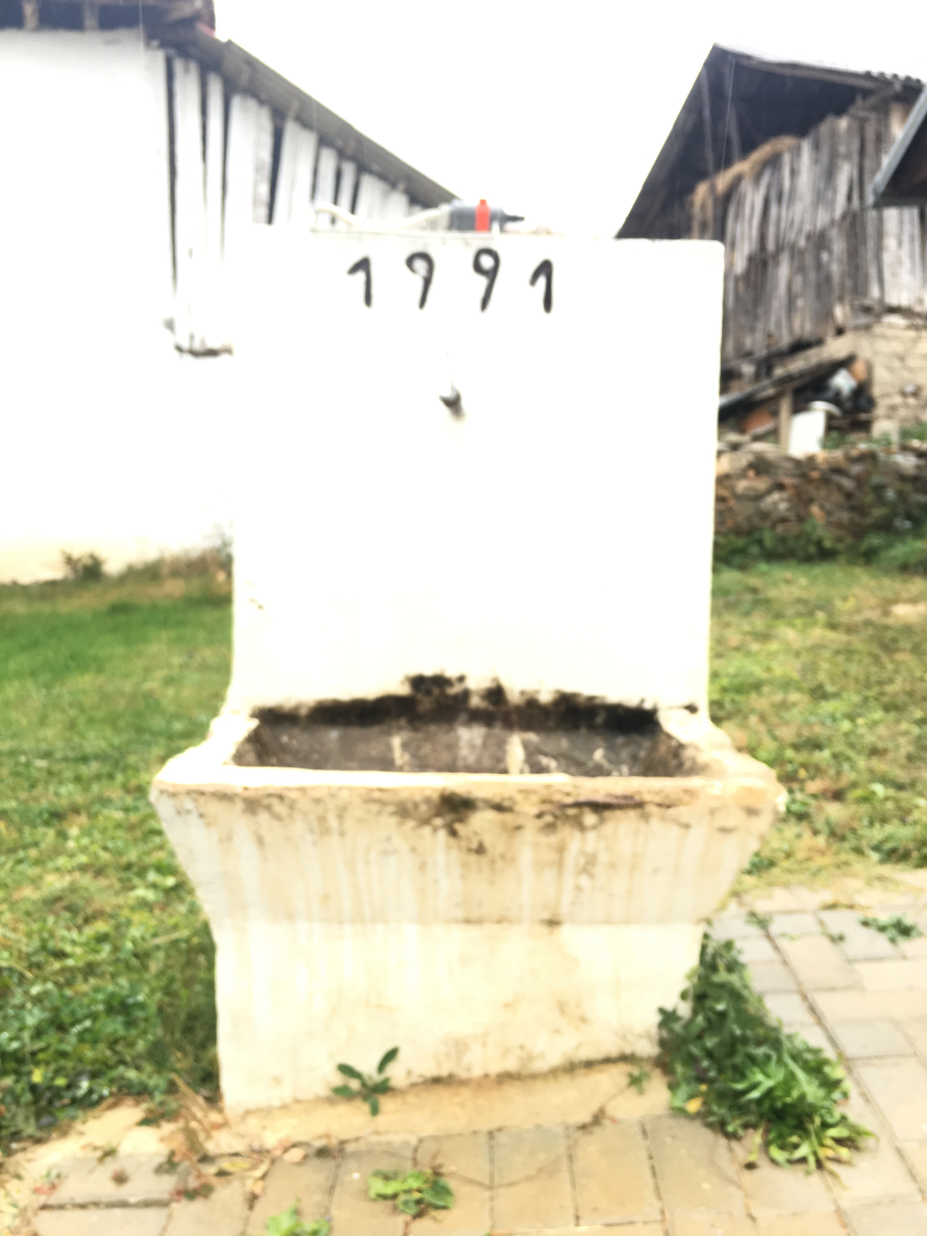 Wikiexpedition to Kopačka